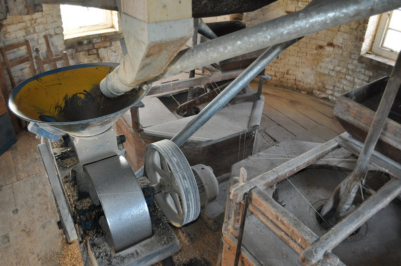 Pakenham Windmill - Stones, near to Ixworth, Suffolk, Great Britain. The two pairs of stones can be seen here along with the modern animal feed rolling mill. TL9369 : Pakenham Windmill - Roller Mill See also TL9369 : Pakenham Windmill - Stones